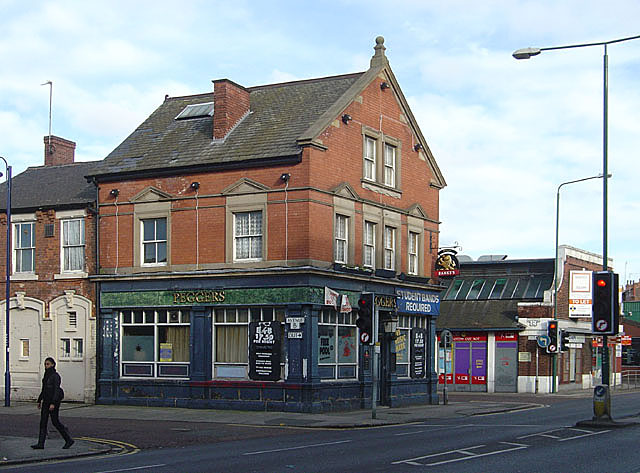 Peggers Formerly the Fox and Grapes, this pub hast been closed for at least a couple of years. It was essentially a market traders' pub serving the wholesale fruit and veg market, part of which can be seen behind. The market was moved to a more transport-friendly site some years ago, but despite trying to modernise, the pub has failed to retain its trade.